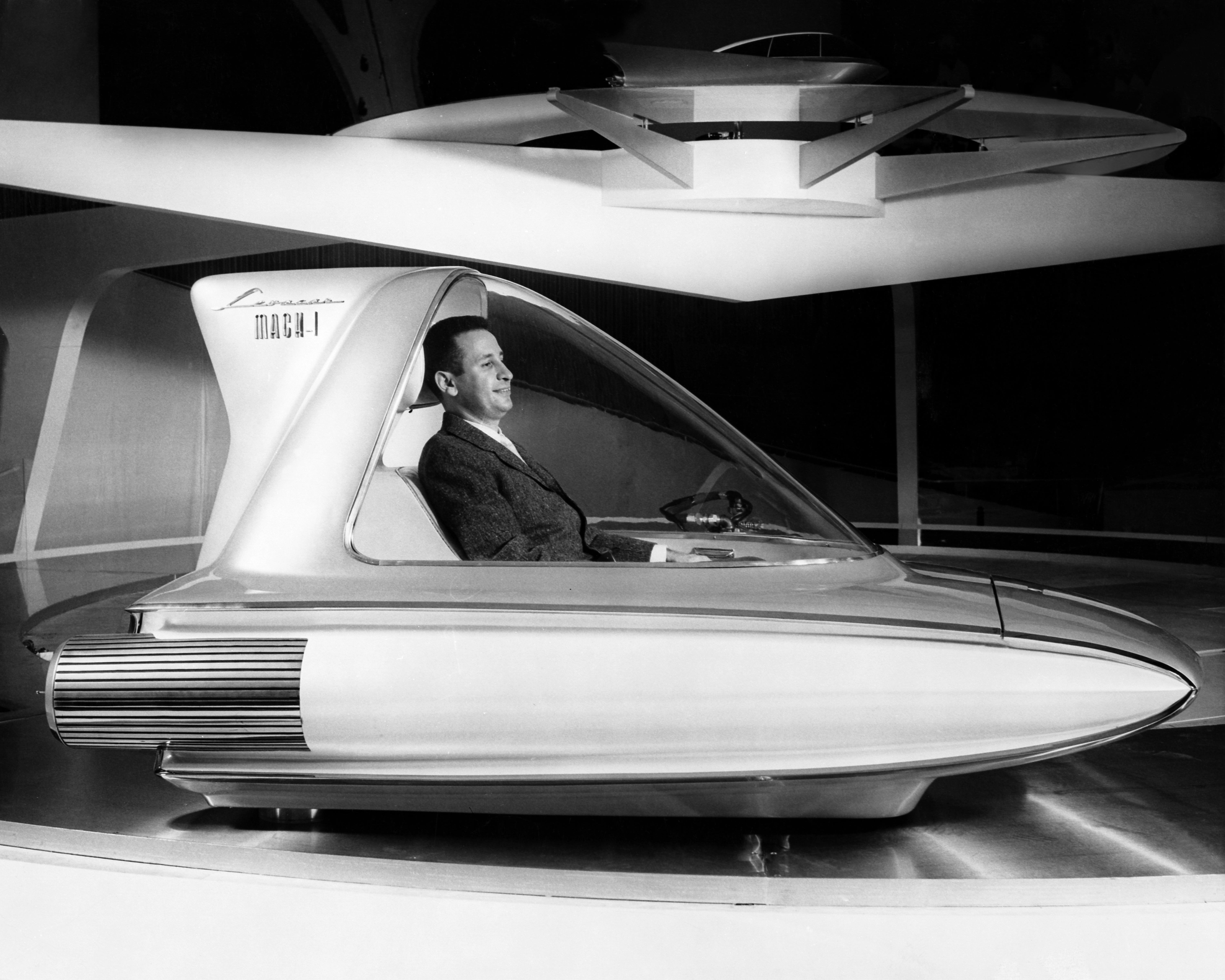 Concept Car Collection